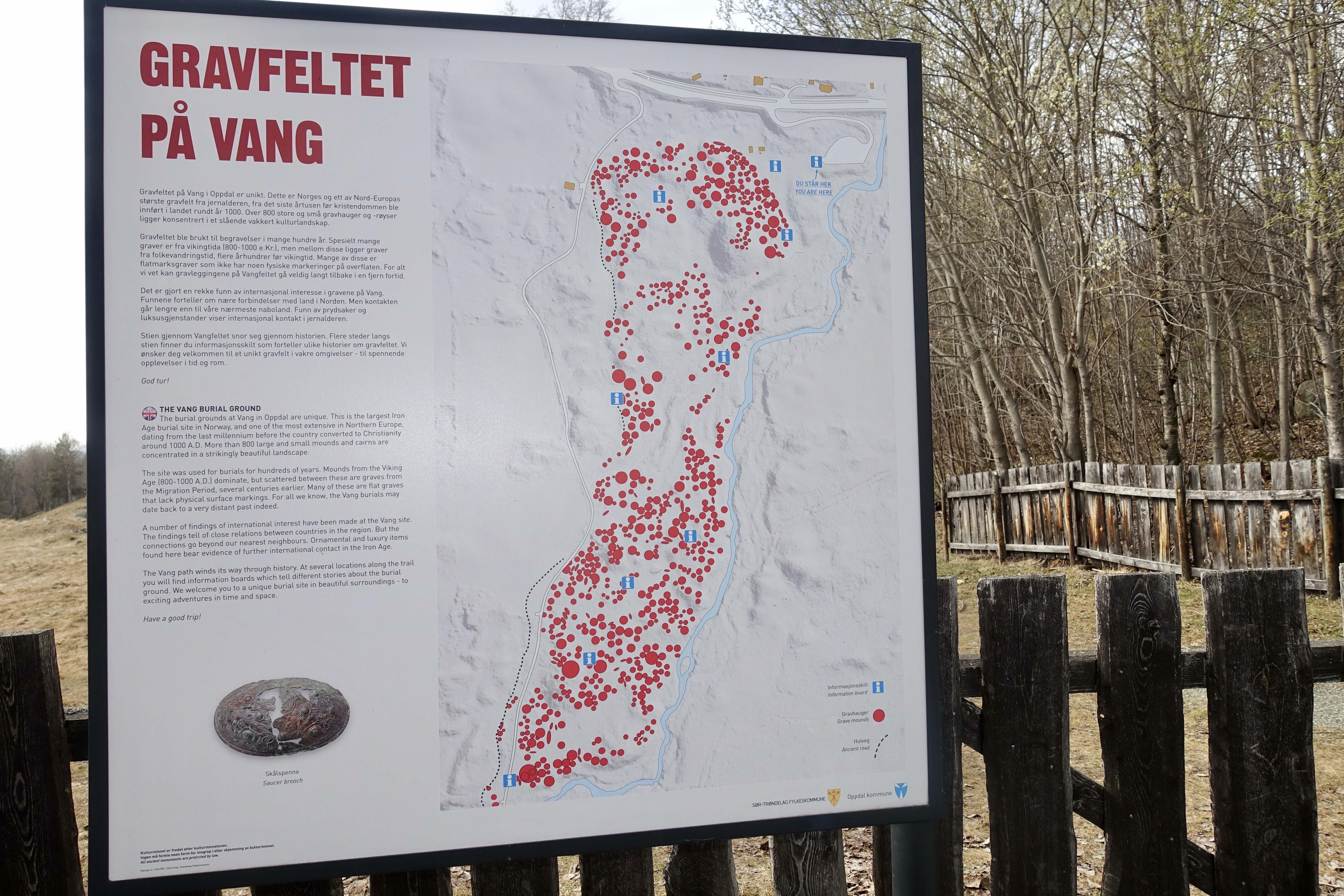 Information board with map by the entrance to The Vang Burial Site ("Vangfeltet" in Norwegian) in Oppdal, Trøndelag. This is Norway's largest burial field with ca. 900 tumuli/mounds from the iron and Viking age. Photo taken on 2019-04-25 (showing springtime with naked trees and snow on ground) (Informasjonstavle med kart over gravfeltet på Vang i Oppdal i Trøndelag, Norges største kjente forhistoriske gravfelt med omkring 900 hauger og røyser fra jernalder og vikingtid, ca. år 400–1000.)